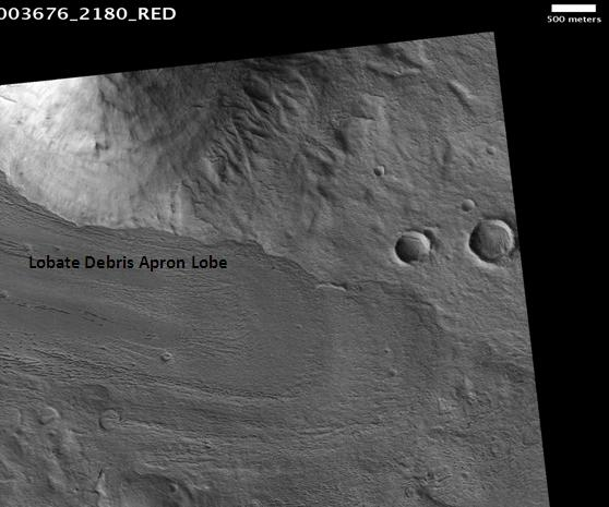 Lobate Debris Apron in Phlegra Montes, as seen by hirise. Location is 37.5 degrees north latitude and 164.6 degrees east longitude. Image was taken by the Mars Reconnaissance Orbiter's HiRISE. The HiRISE camera was built by Ball Aerospace and Technology Corporation and is operated by the University of Arizona. Image courtesy NASA/JPL/University of Arizona.